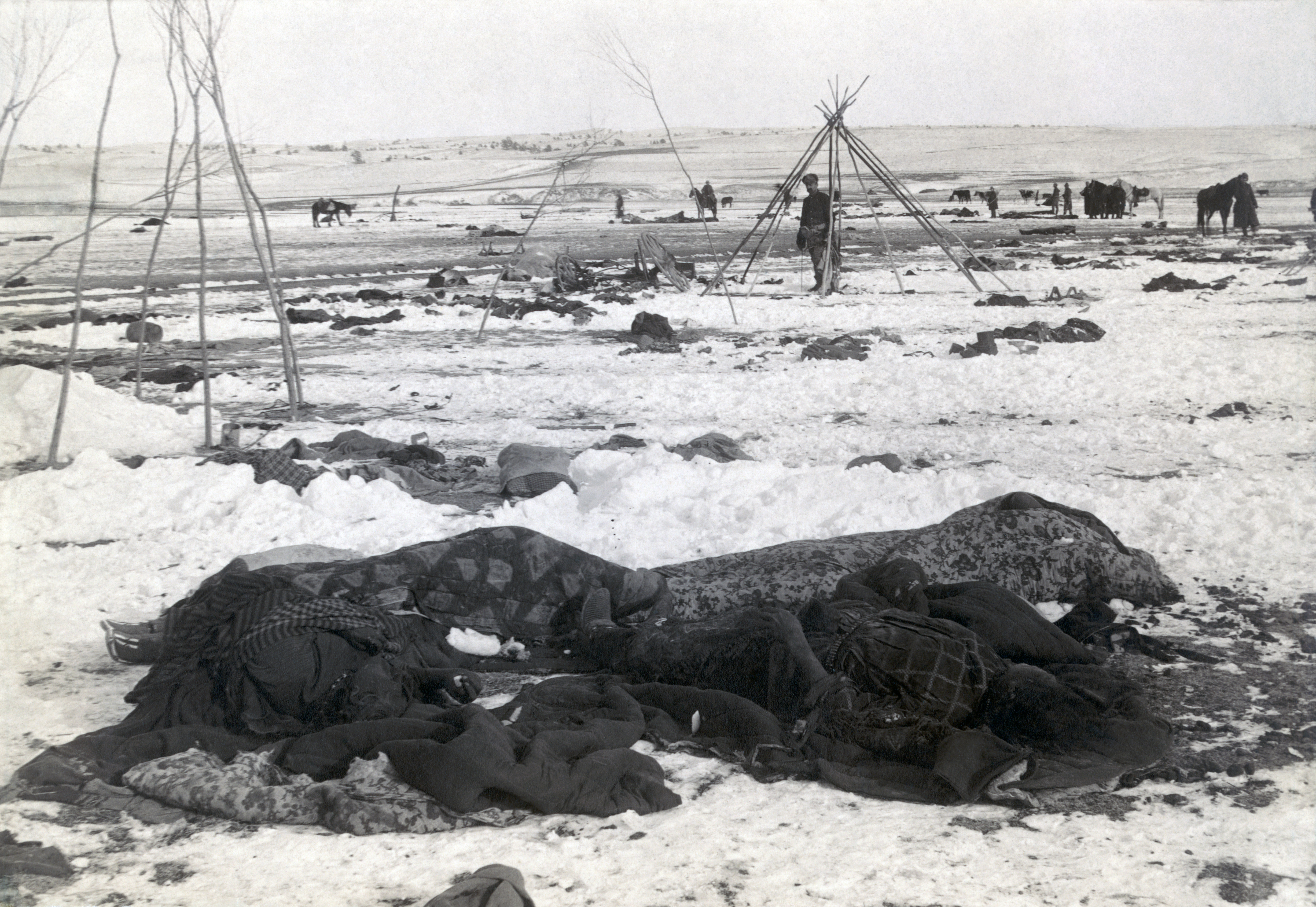 Bibliographic caption: "Big Foot's camp three weeks after Wounded Knee Massacre; with bodies of four Lakota Sioux wrapped in blankets in the foreground; U.S. soldiers amid scattered debris of camp" 1 photographic print : albumen ; 9 x 11 in.